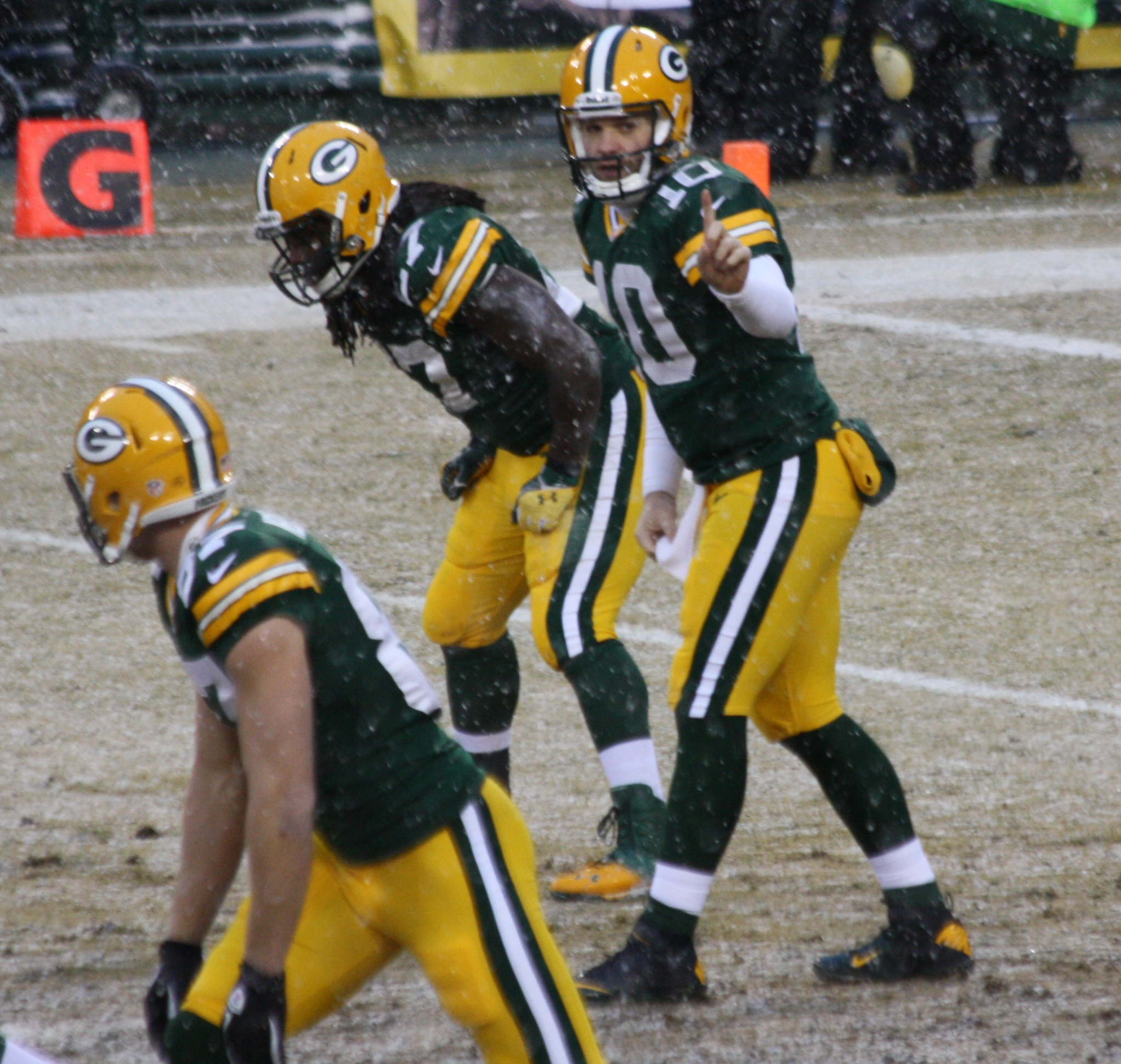 Green Bay Packers quarterback Matt Flynn barking signals against the Pittsburgh Steelers. Also on the photograph is #27 Eddie Lacy (middle) and #87 Jordy Nelson (left).